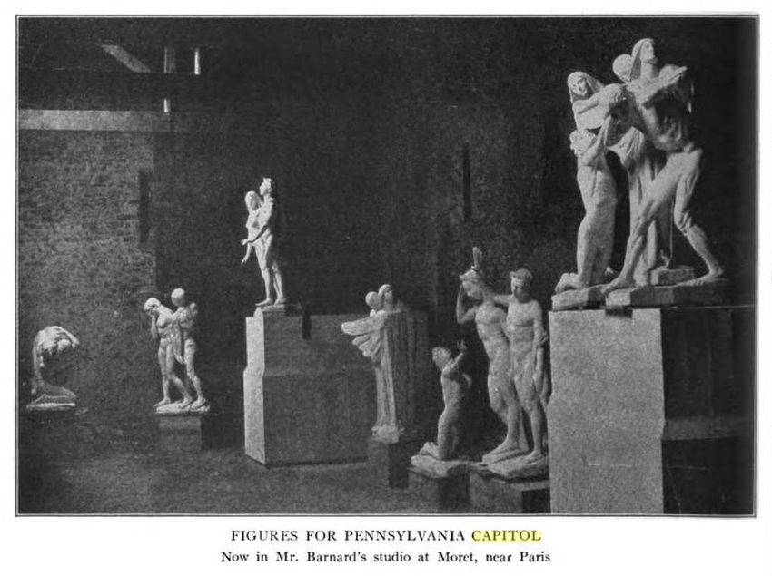 George Grey Barnard's studio at Moret, near Paris.